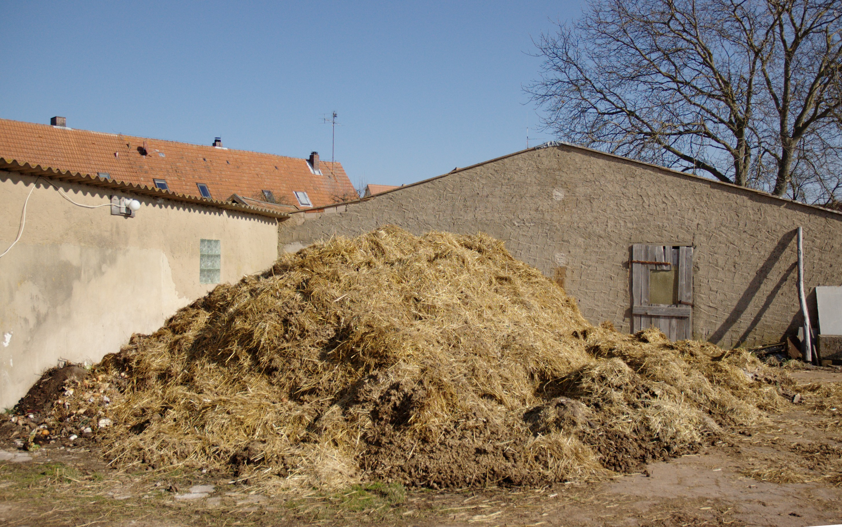 dungheap